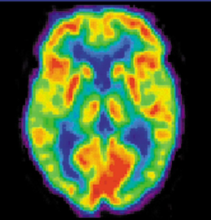 Positron emission tomography image of a human brain.